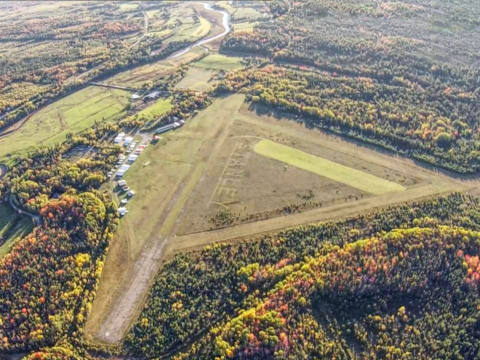 This is an aerial photograph of Stanley Airport taken in the fall of 2018 by Mike Whitehead. The airfield was built in 1940-1941 for the Royal Canadian Air Force as part of the British Commonwealth Air Training Plan. The familiar triangular pattern of the original WW II runways is clearly visible, as is the WW II treeline. The view is to the southeast. Stanley was home to No. 17 Elementary Flying Training School, which was managed by the Halifax Flying Club. No. 17 EFTS provided ab initio flying instruction. The school opened in March 1941 and closed in January 1944. This photograph is used with permission of Mike Whitehead. The date of the photograph is an estimate.